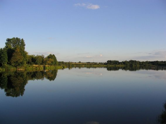 Pond in Pionki